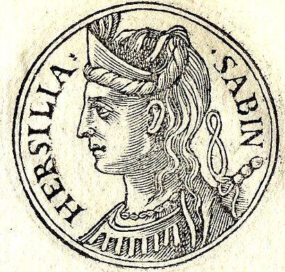 Hersilia was the wife of Romulus. The principal source for her is Livy, I.11.